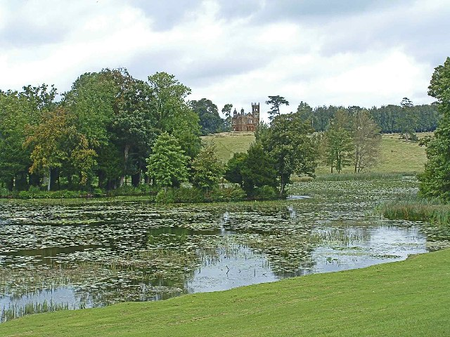 Lake at Stowe Landscape Garden with the Gothic Temple in distance. Stowe landscape garden is owned by the National Trust and is a magnificent garden in the grounds of Stowe School.